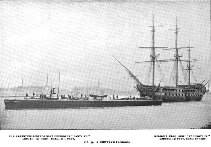 The HMS Foudroyant seen next to the Argentine torpedo boat destroyer Santa Fe.